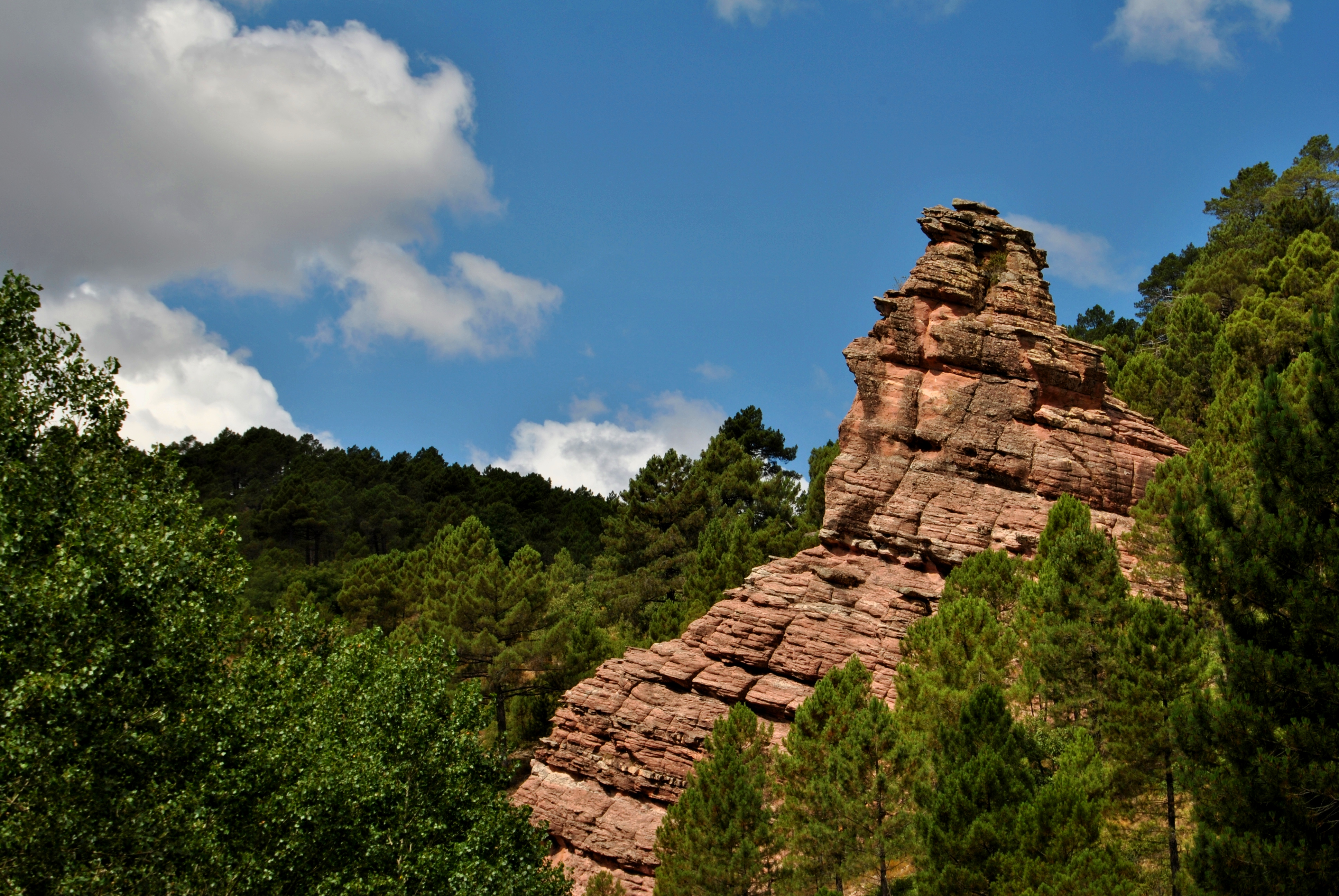 Rock formations - Near Cañete - Cuenca province